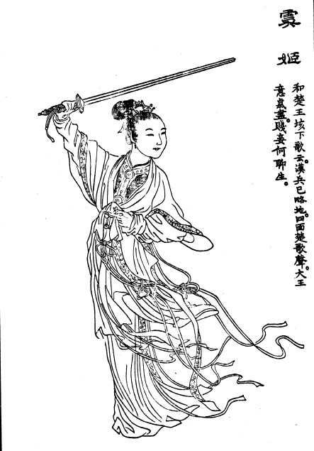 She is the wife of XiangYu .This image was carried on the book which is called "Wan hsiao tang-Chu chuang -Hua chuan（晩笑堂竹荘畫傳） " which was published in 1921（民国十年）.